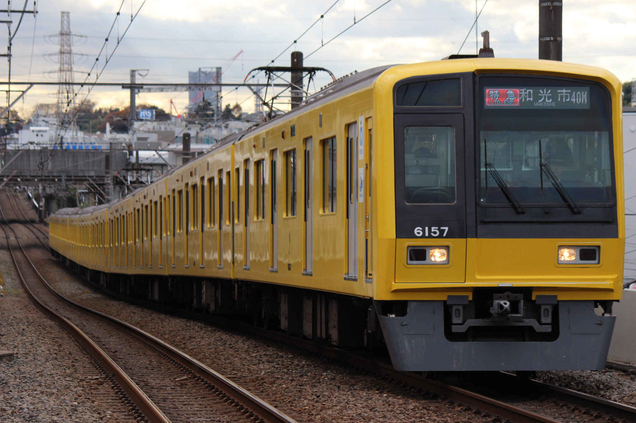 Seibu 6000 series EMU set 6157 in special all-over yellow livery on the Tokyu Toyoko Line (eastbound train approaching Okurayama Station)